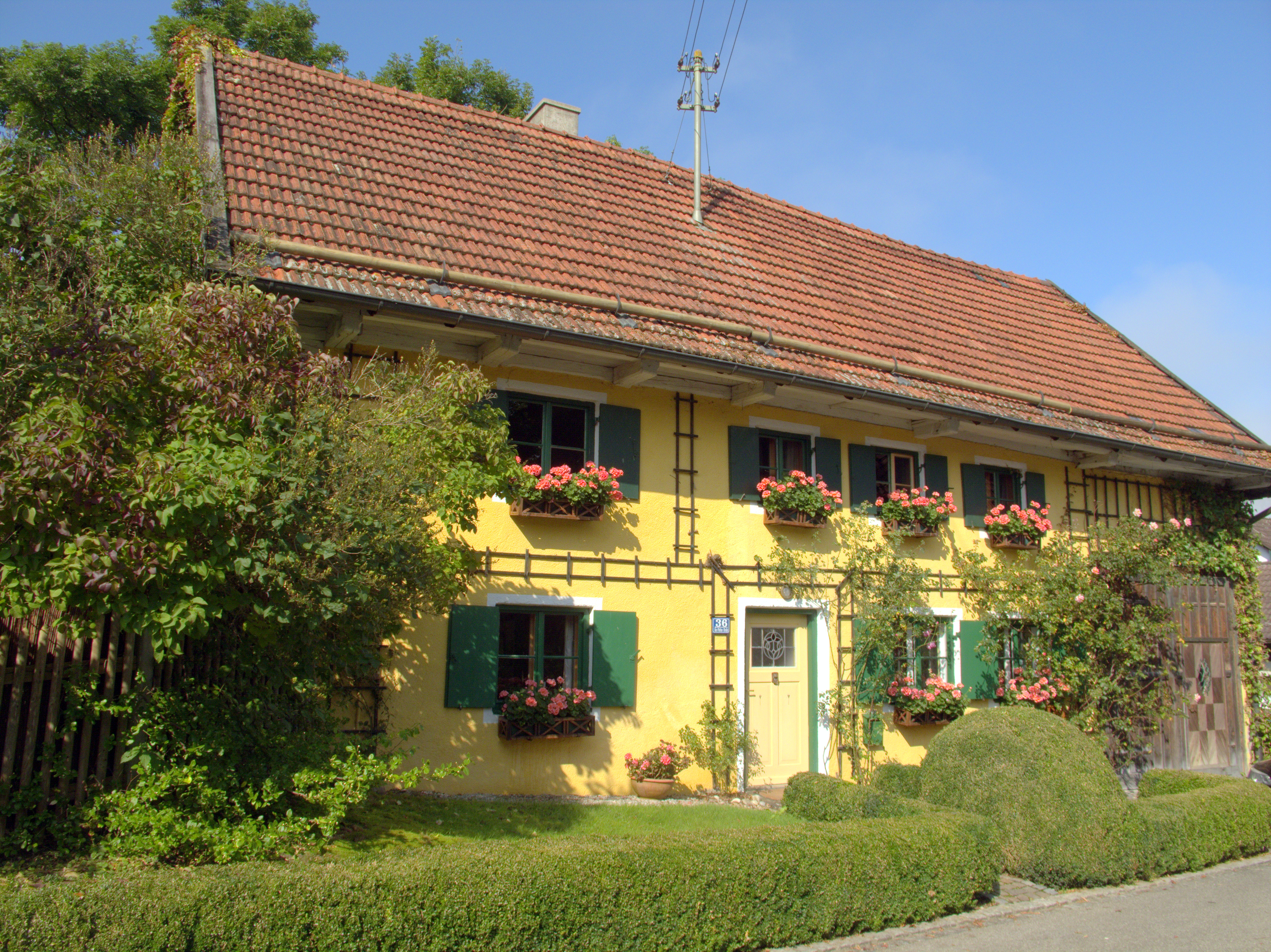 This is a photograph of an architectural monument.